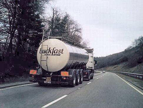 Picture of Buckfast Tonic Wine tanker on the A38 road in Devon